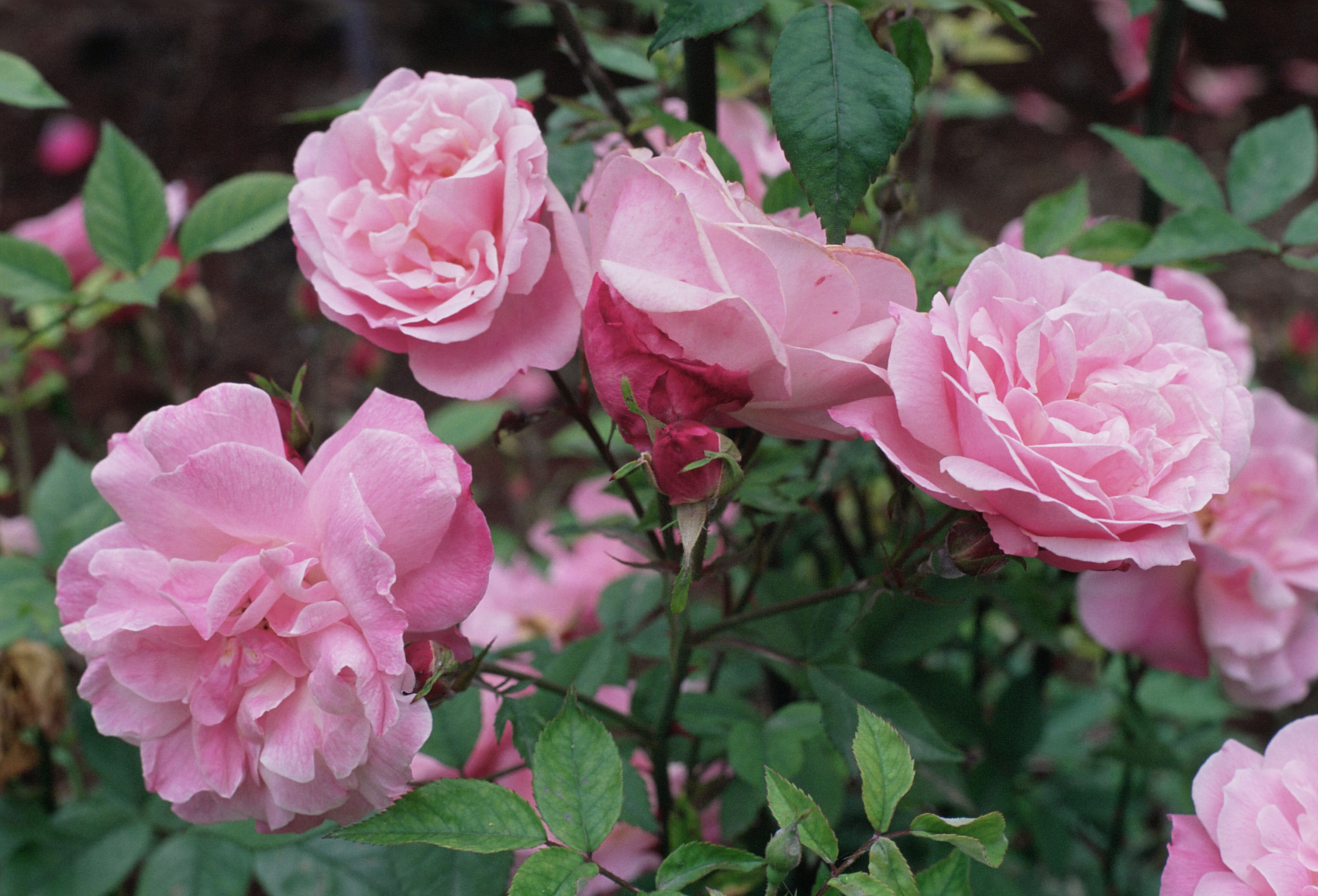 Rosa 'Old Blush', gr. Chinensis, sect. Chinensis. Real Jardín Botánico, Madrid